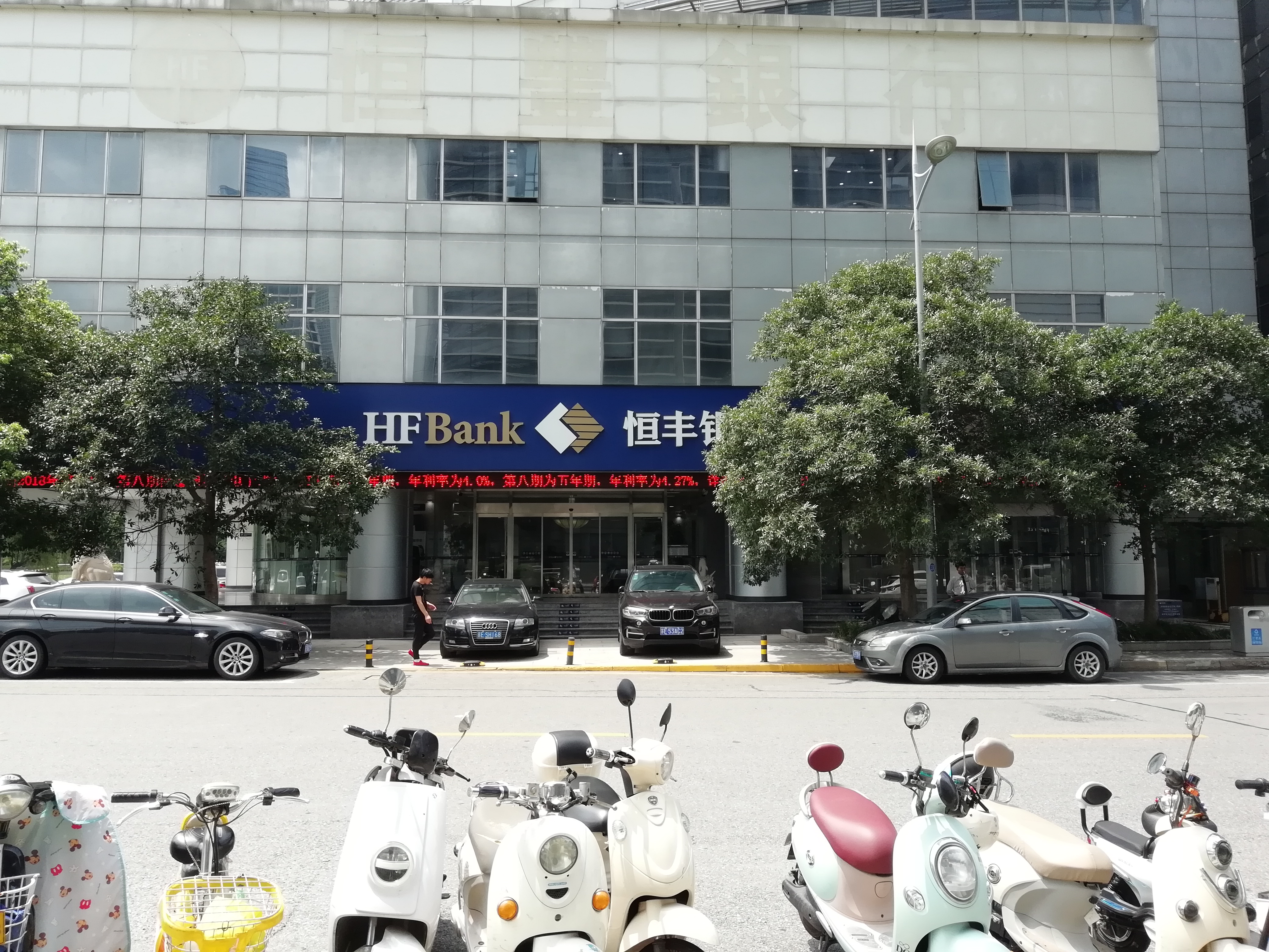 Hengfeng Bank Suzhou Branch 中文（中国大陆）: 恒丰银行苏州分行